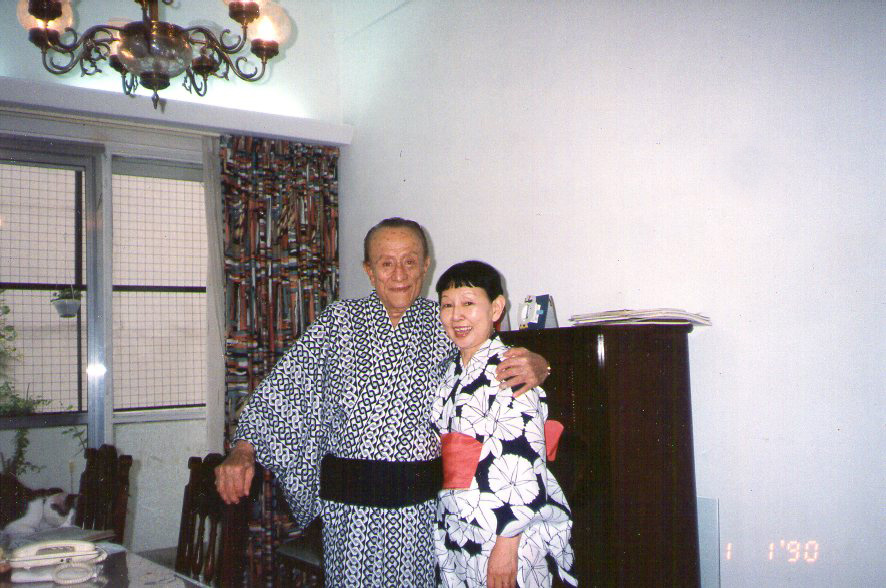 Akiko Kawarai and tango singer Charlo wearing kimono.